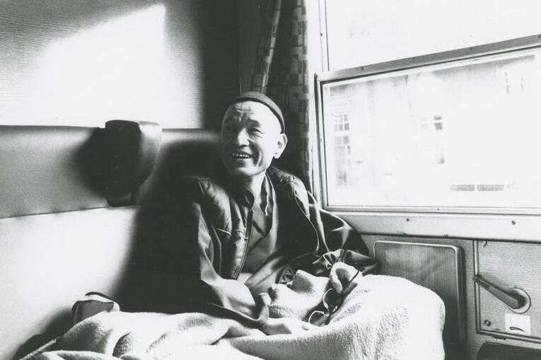 Maezumi Roshi gave teachings in Poland, Holland and England that year and was present for genno Roshi's Shiho ceremony